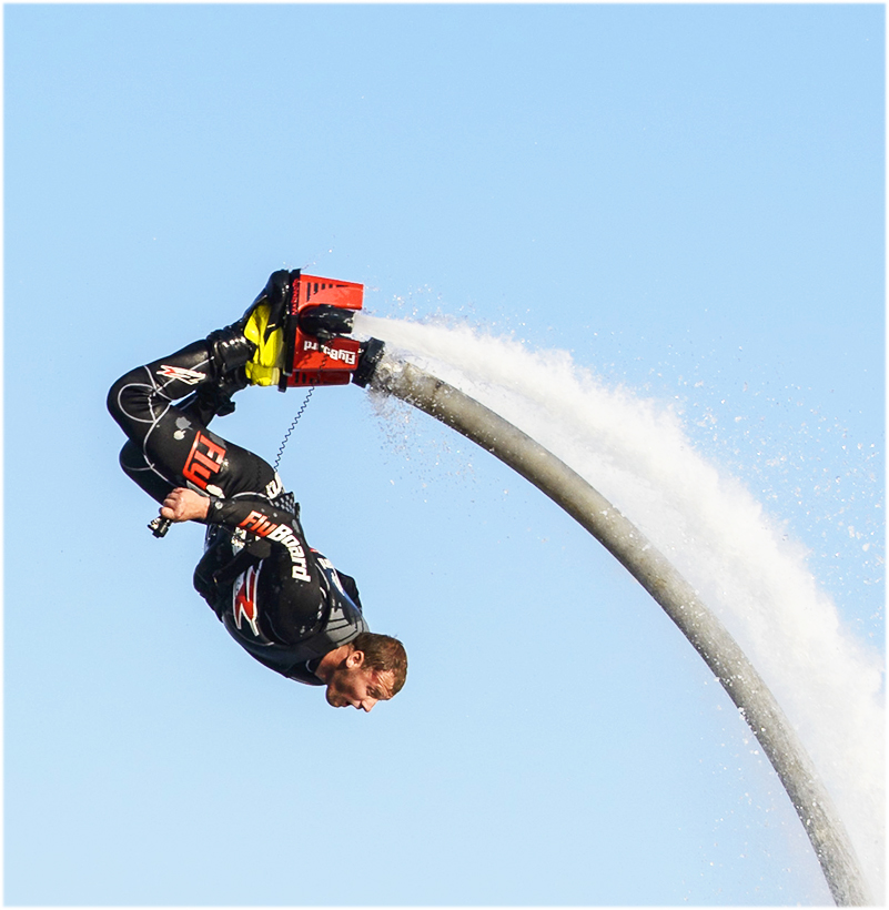 Lindsay McQueen making a trick called "backflip" with FlyBoard